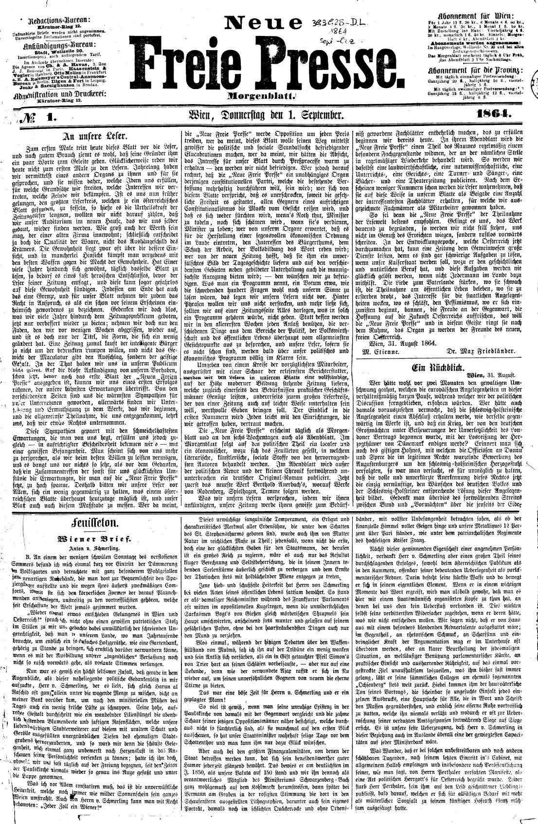 Neue Freie Presse №1